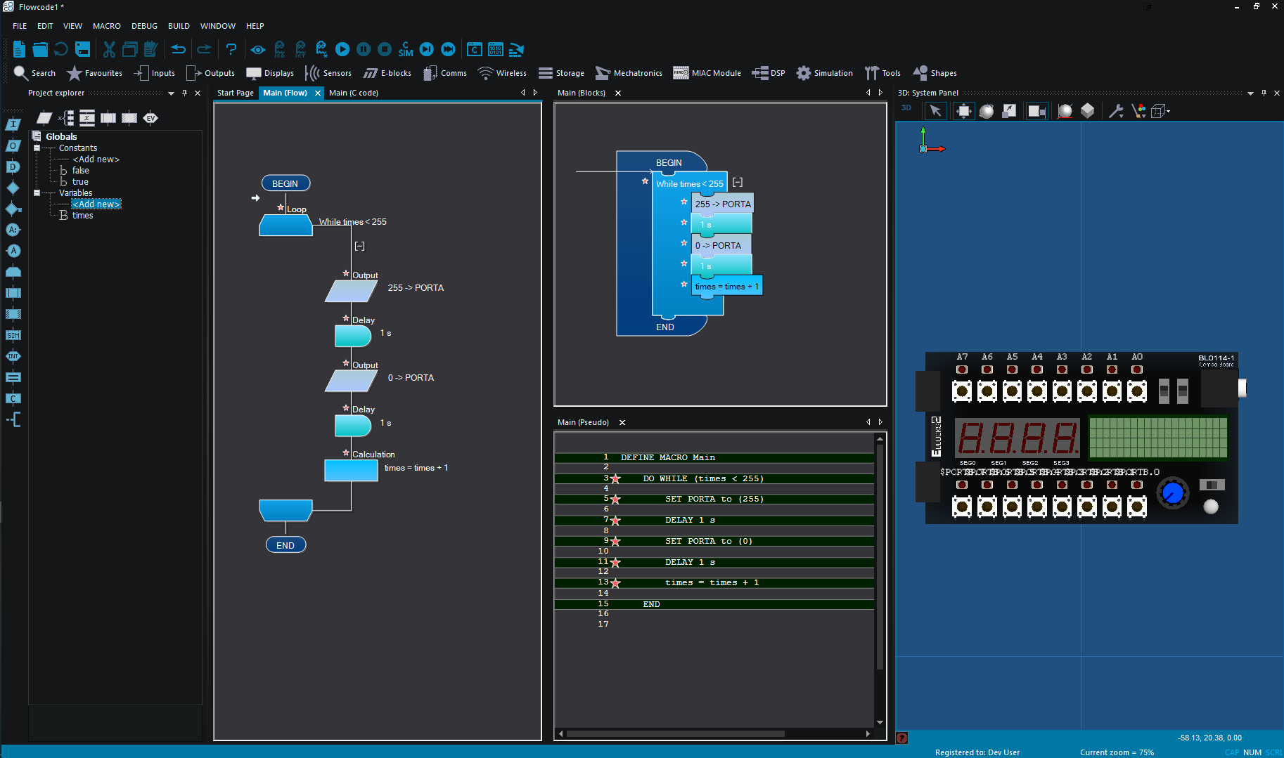 Flowcode 8 Screenshot